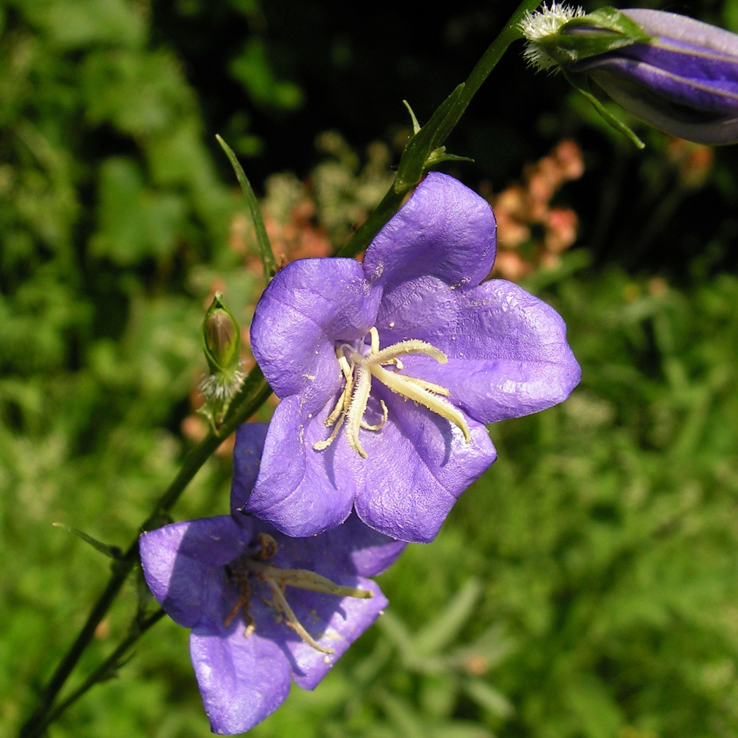 Campanula persicifolia, wild plant. Moscow region, Russia.